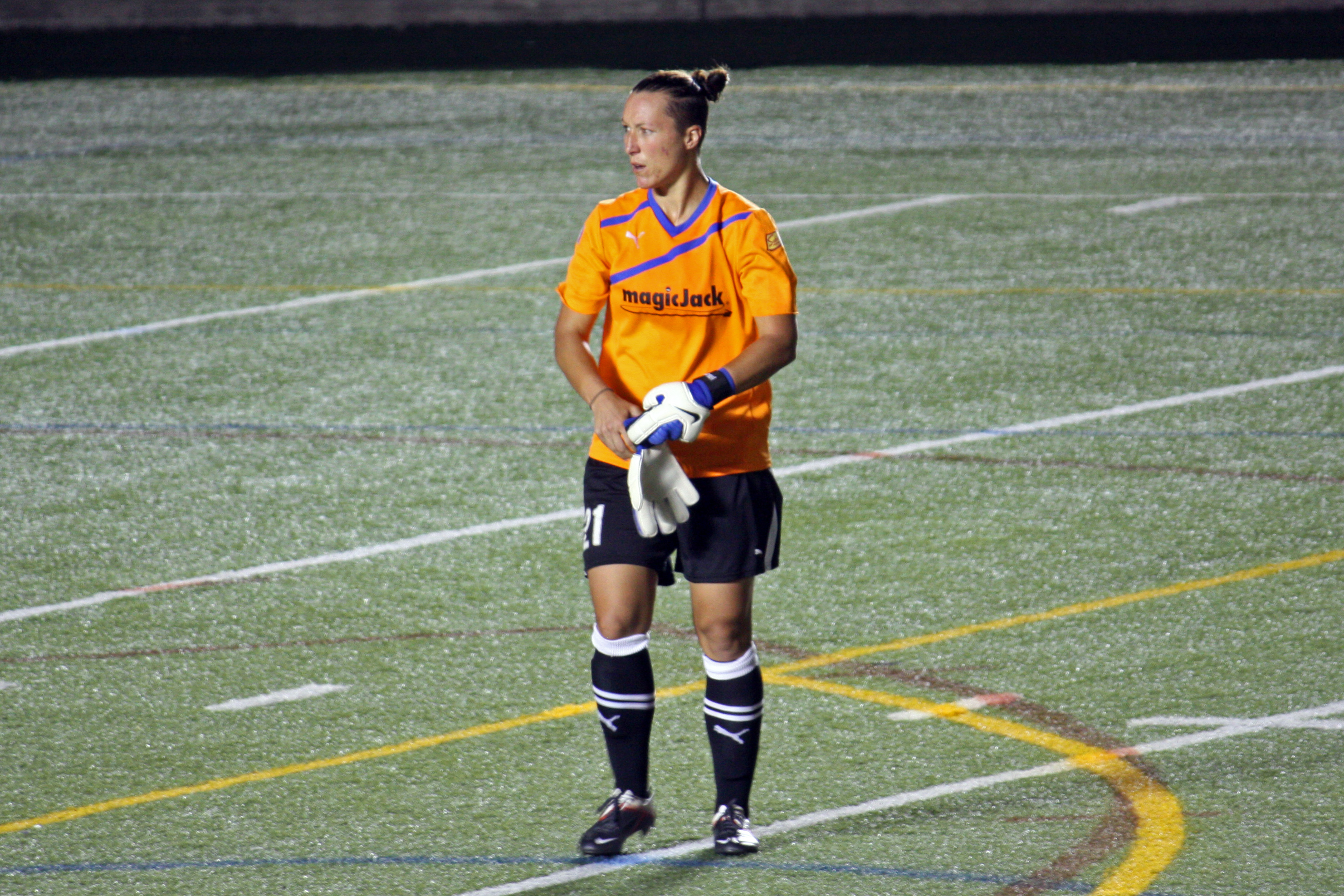 Magic Jack keeper Jill Loyden during magicJack's 2-0 win over the Boston Breakers, Saturday, August 6 at Harvard Stadium in Boston, Mass.